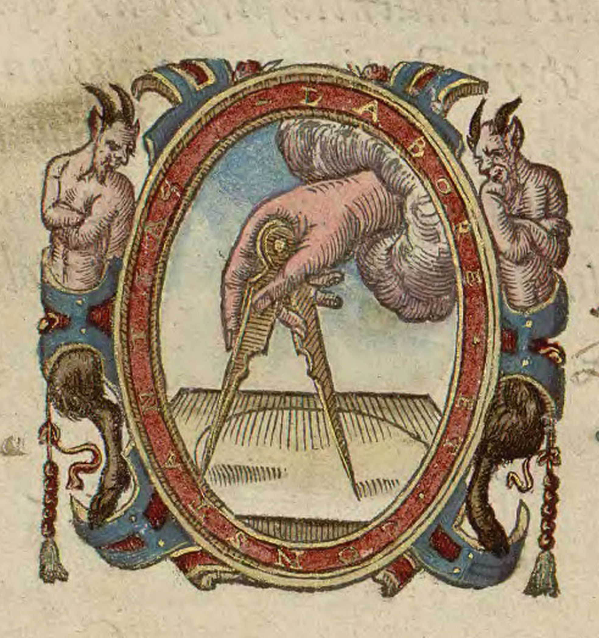 Theatri Orbis Plantinus Page 3 Title